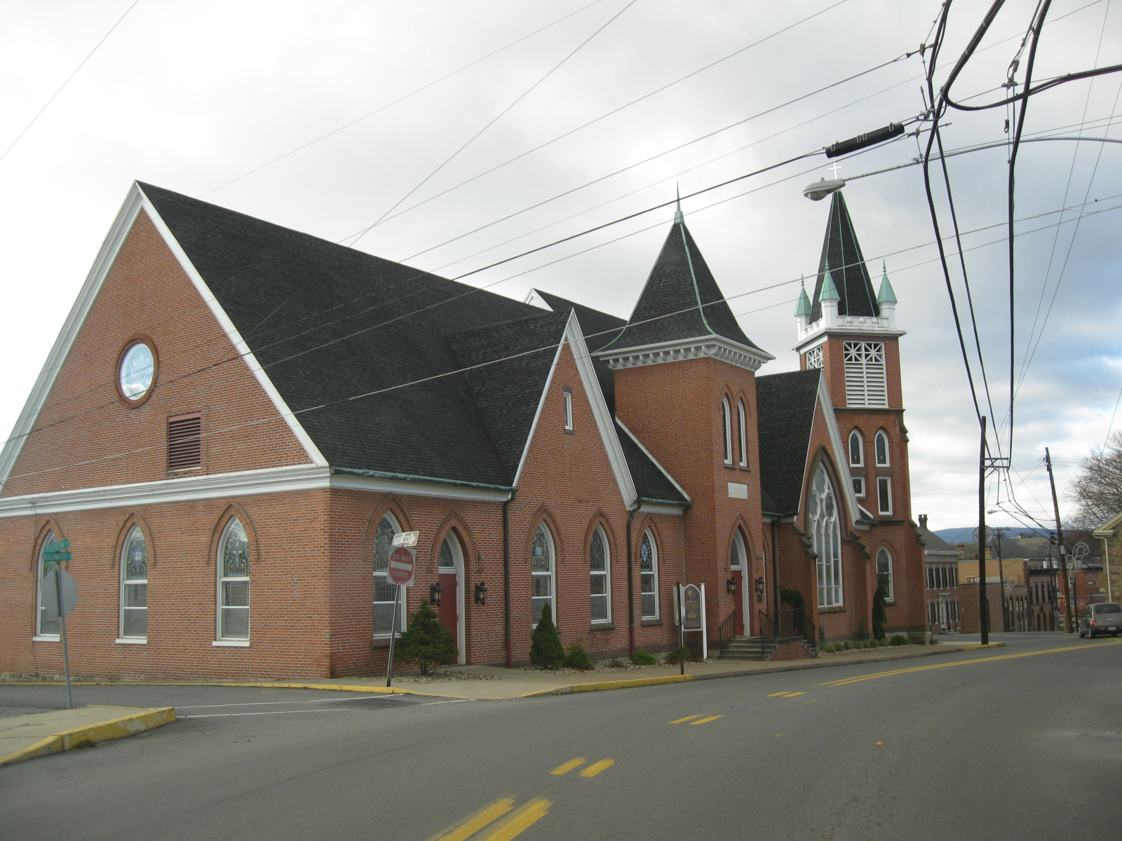 Mifflintown, Pennsylvania